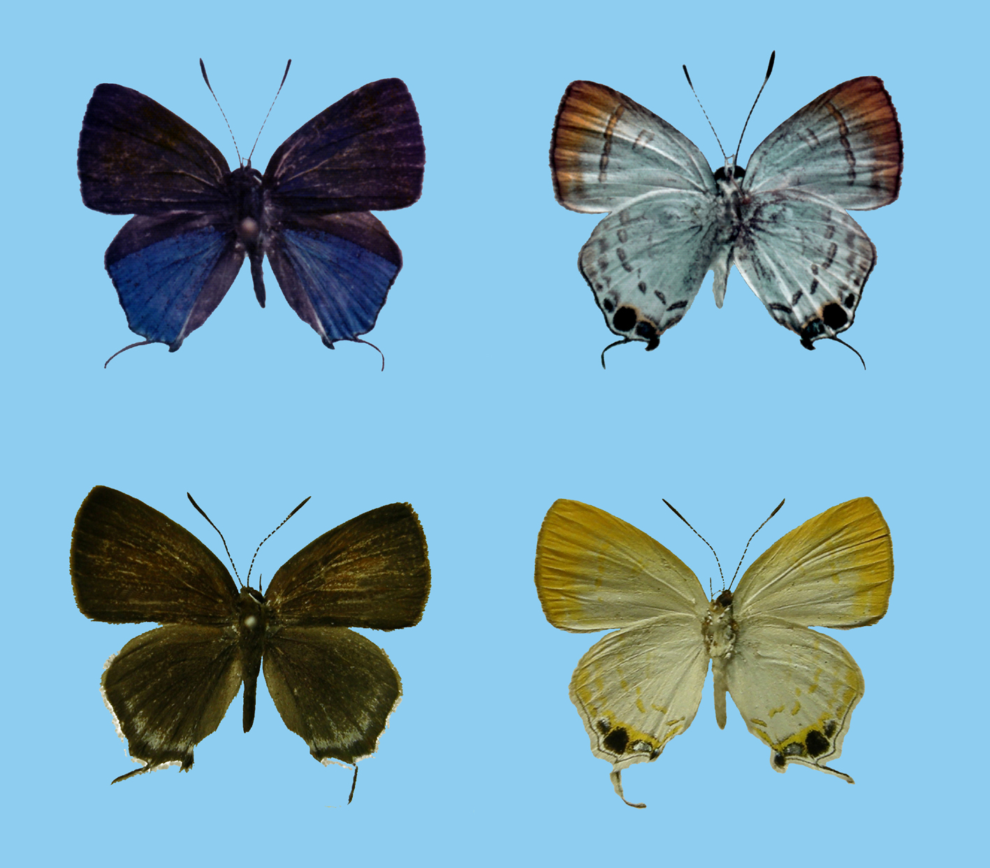 Sinthusa kawazoei, male and female